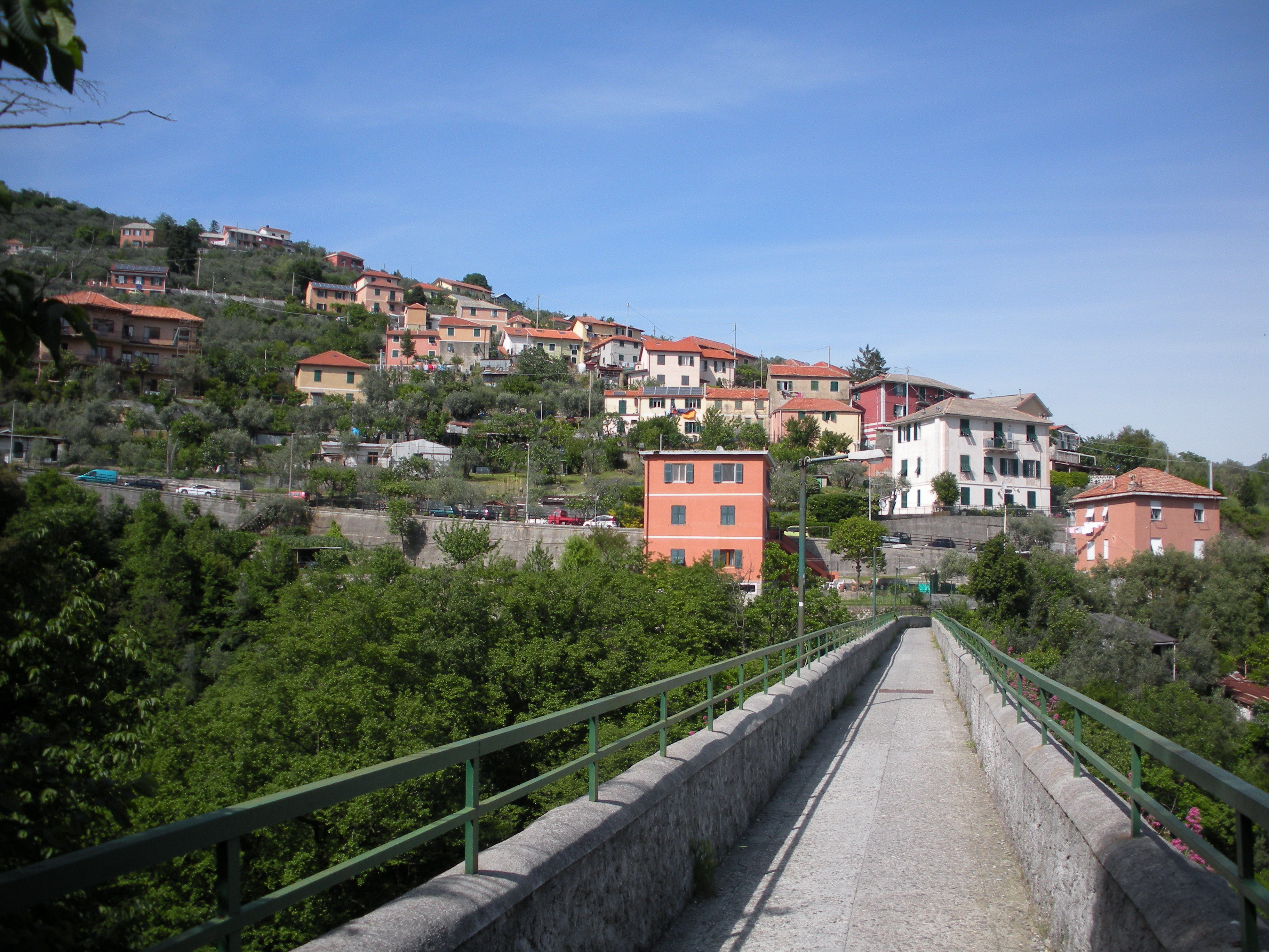 Genoa (Italy), quarter of Staglieno, view of Preli by the canal bridge of the ancient aqueduct